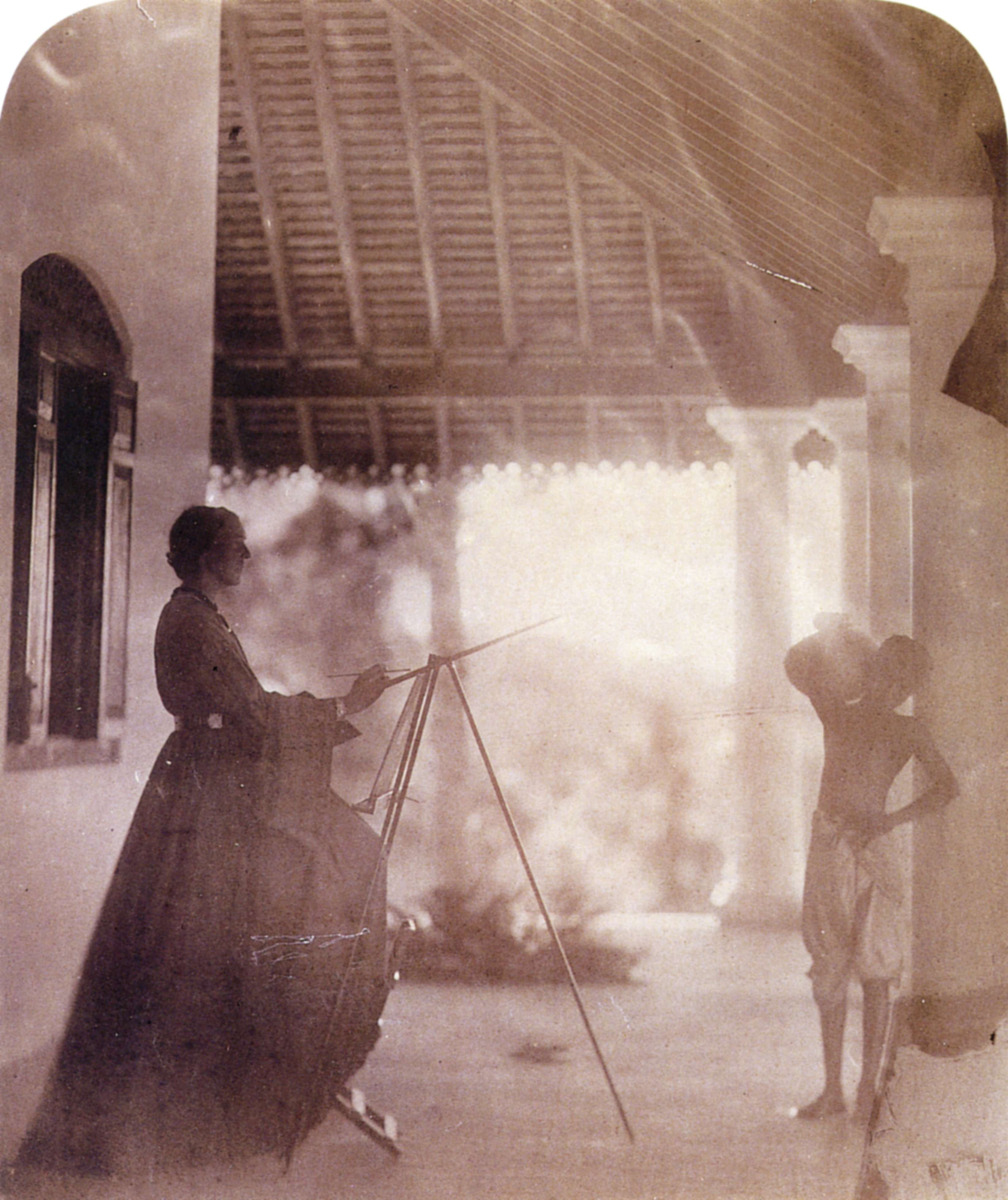 Marianne North in Mrs Cameron's house in Ceylon. Depicts Marianne North painting a Tamil boy. Albumen print, 277 x 236mm (10 7/8 x 9 1/4").